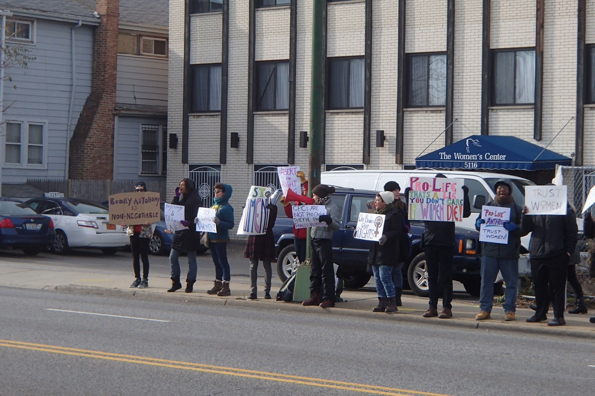 Members of Chicago feminist group FURIE protest crisis pregnancy center "The Women's Center" at 5116 N. Cicero Ave. in Chicago, Illinois, on November 15, 2014.